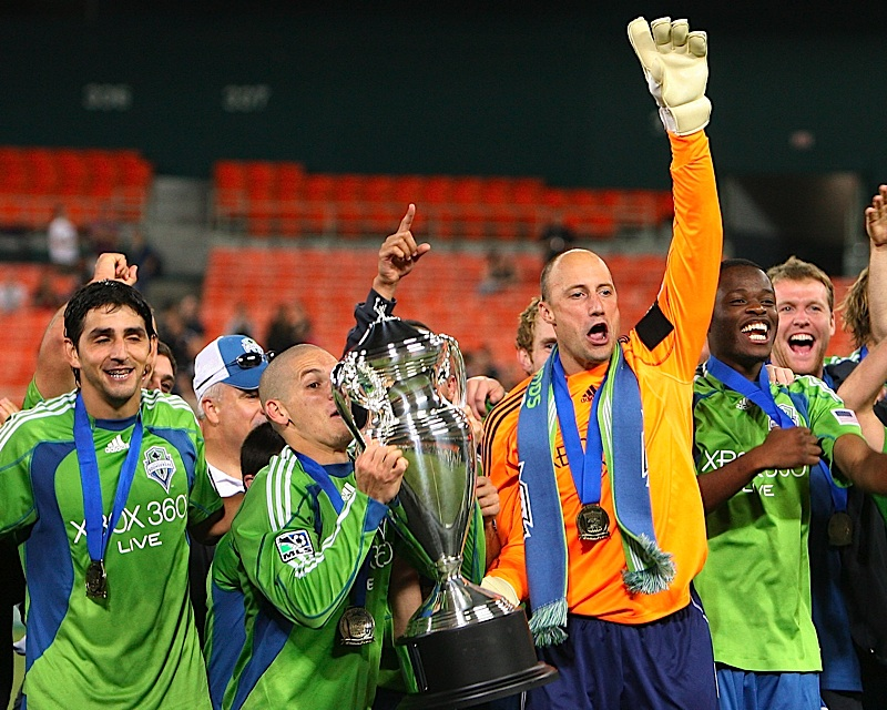 Leonardo González, Osvaldo Alonso and Kasey Keller of Seattle Sounders FC receiving the 2009 U.S. Open Cup trophy in RFK Stadium following their 2-1 victory over DC United in the tournament final.